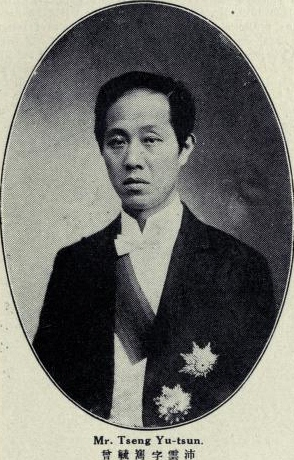 Zeng Yujun, Yunpei (1865 - 1963)